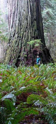 Photo of M. D. Vaden (Certified Arborist) next to coast redwood Del Norte Titan. In Jedediah Smith Redwoods State Park among the Grove of Titans.